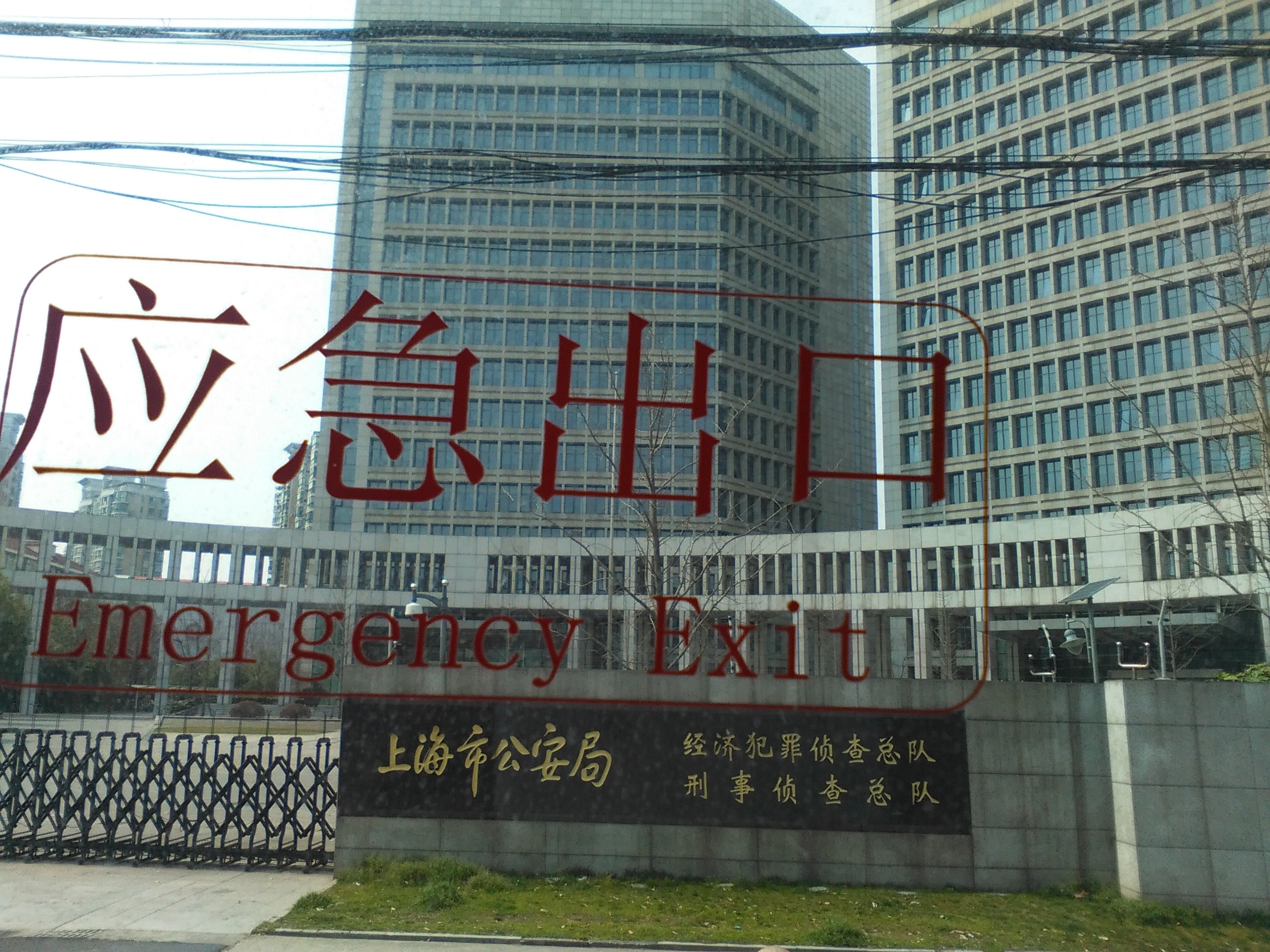 Building of Criminal Investigation Brigade of Shanghai Public Security Bureau, which nicknamed "803".